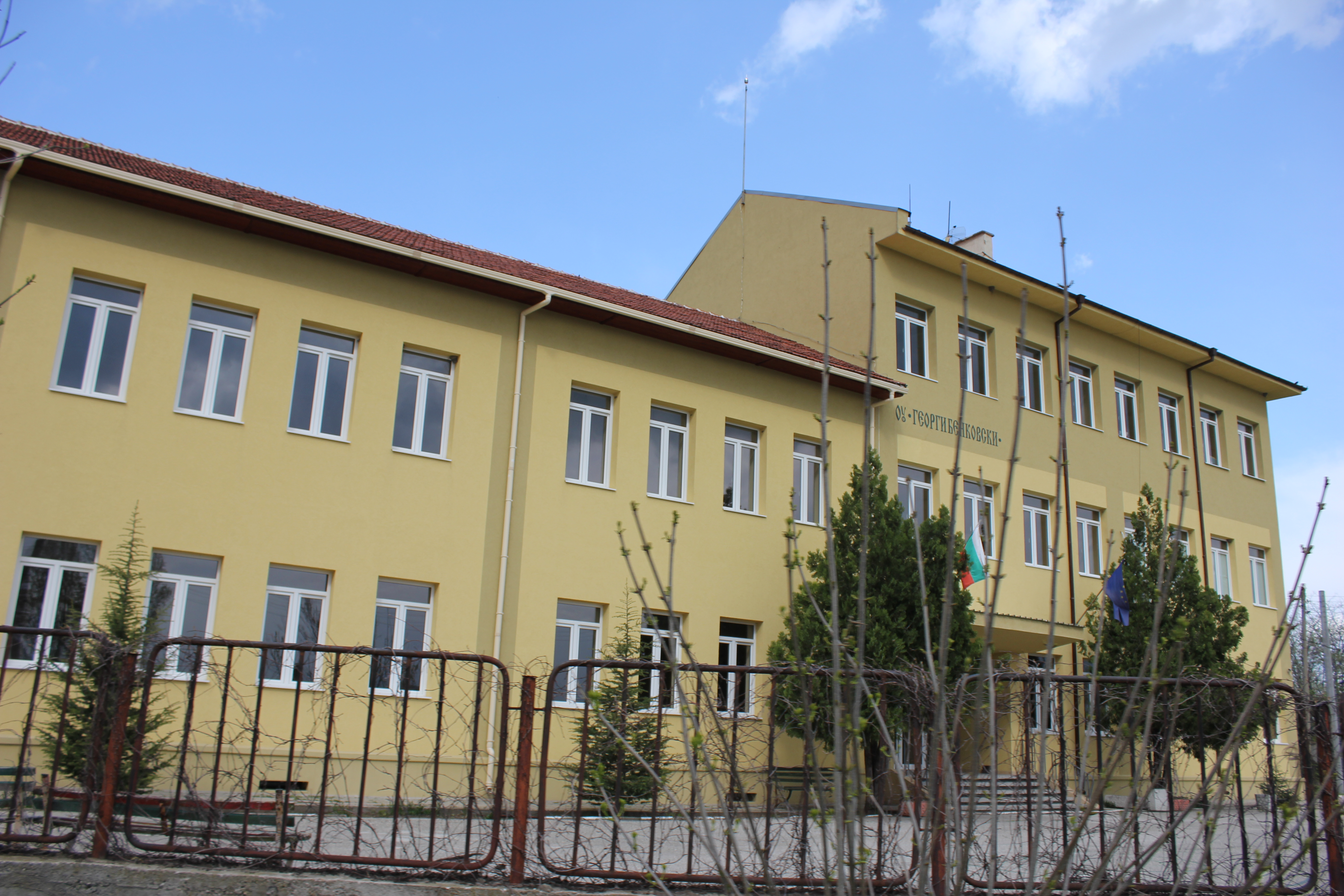 Benkocski School